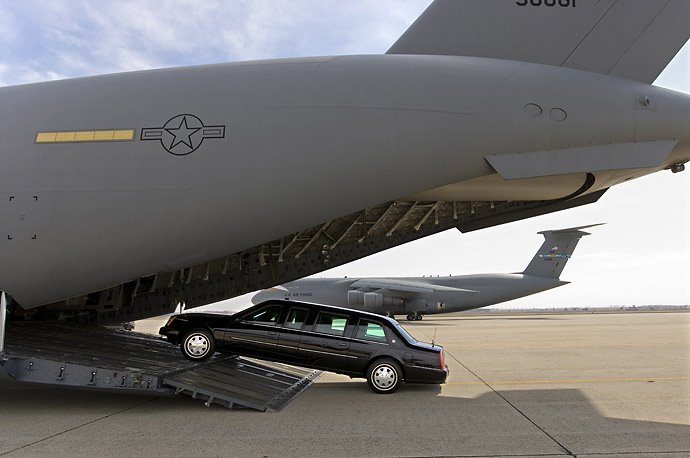 Unloading the Presidential limousine before the arrival of Air Force One.